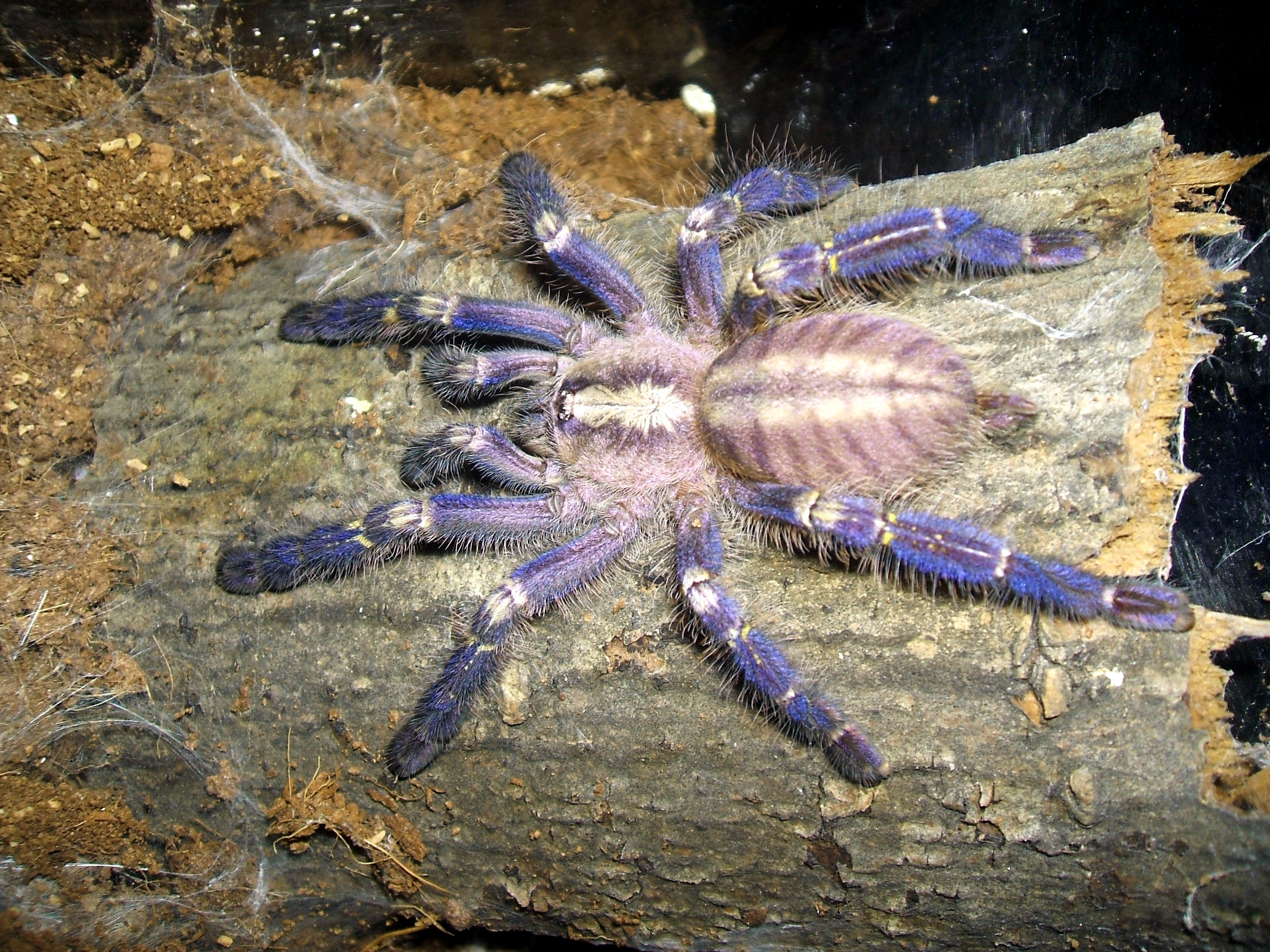 Picture of a juvenile female poecilotheria regalis.